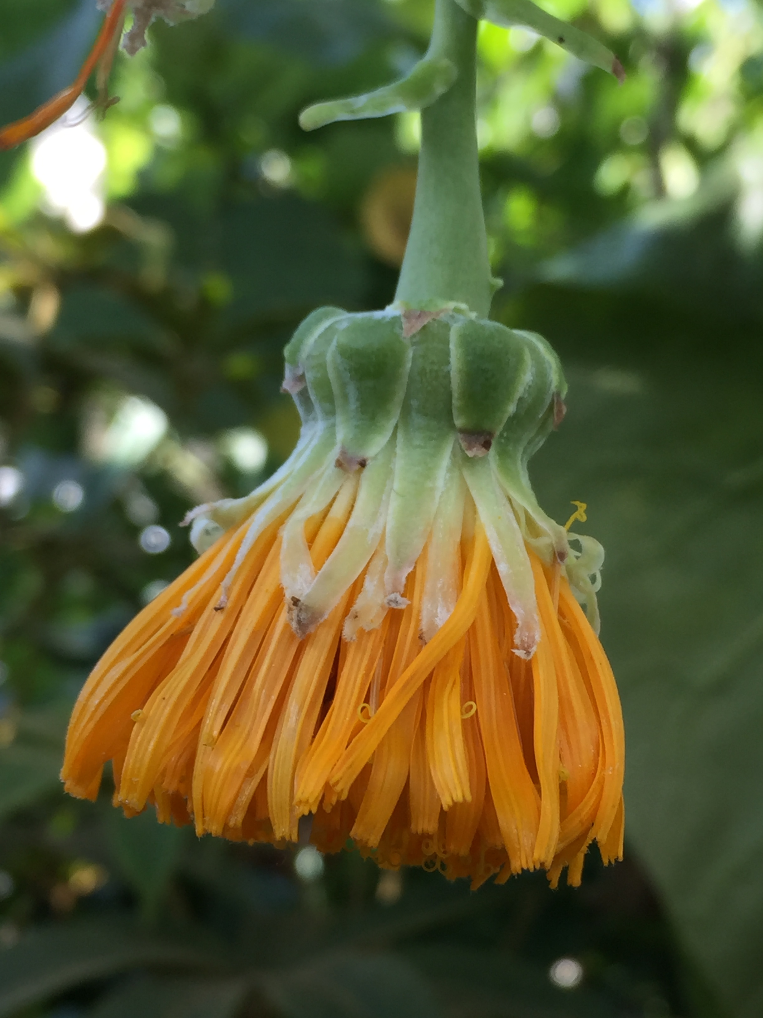 Single capitulum ('flower' although actually inflorescence) of rare Juan Fernandez Islands endemic Dendroseris litoralis Skottsb. (family Asteraceae), common name : 'Cabbage Tree'. Cultivated specimen growing in the Temperate House, Kew Gardens, UK.